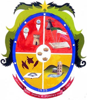 escudo carranza